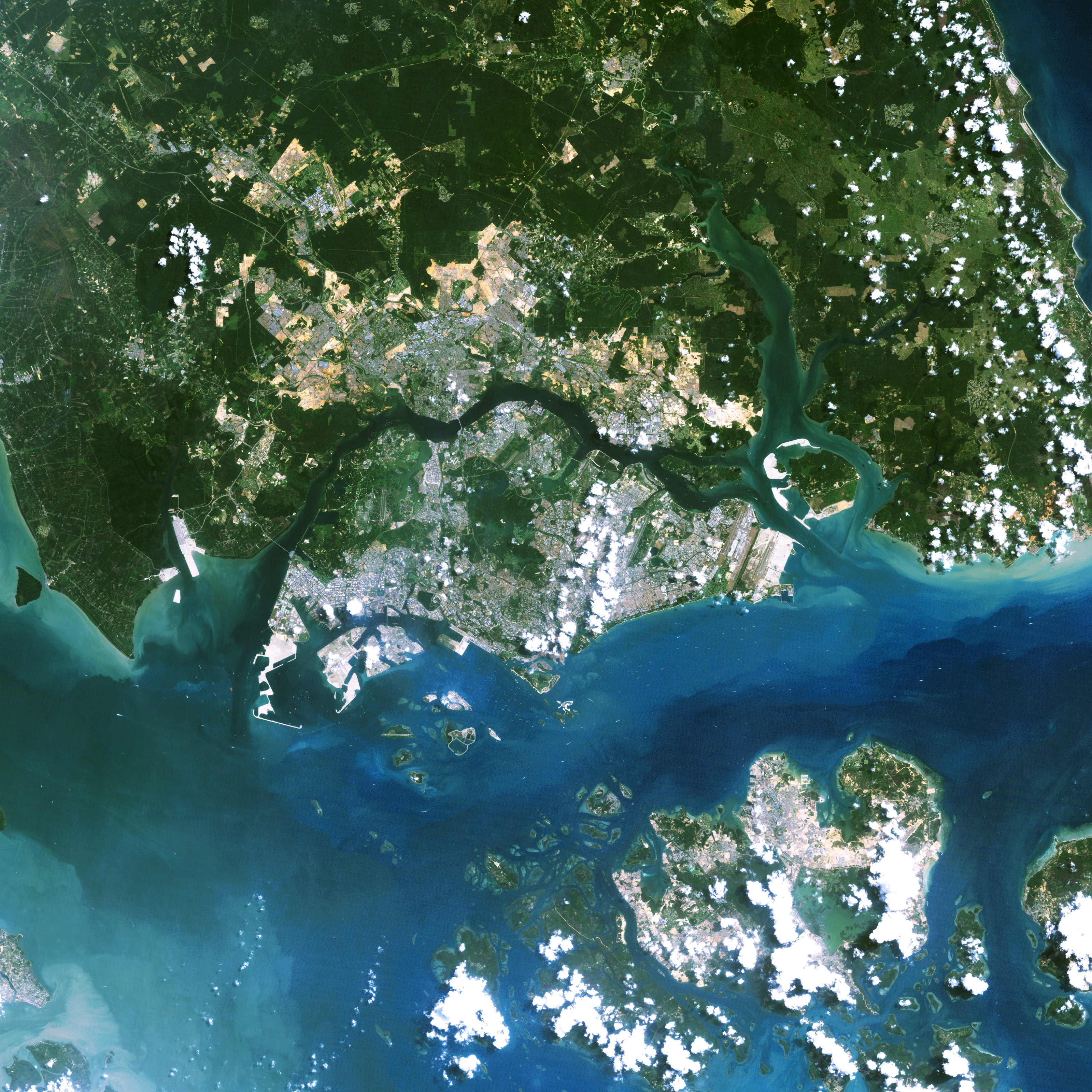 A true color image of Singapore, Johor and Riau Islands acquired on May 4, 2005 by Landsat 5 using TM bands 3, 2 and 1, on Landsat WRS-2 Path 125 Row 59.